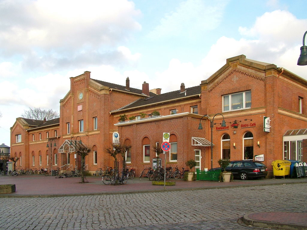 Station building of the German train station Lingen(Ems)